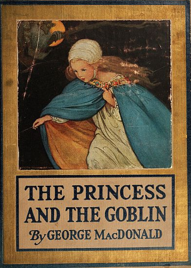 Cover to The Princess and the Goblin by George MacDonald, illustrated by Jessie Willcox Smith, 1920